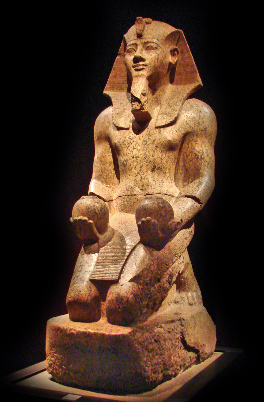 Statue of pharaoh Amenhotep II of the 18th dynasty of Egypt making an offering from the Temple of Amun at Thebes.